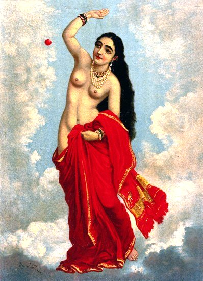 Half-clothed Tilottama flying in the sky playing with a red ball. Chromolithograph by R. Varma.